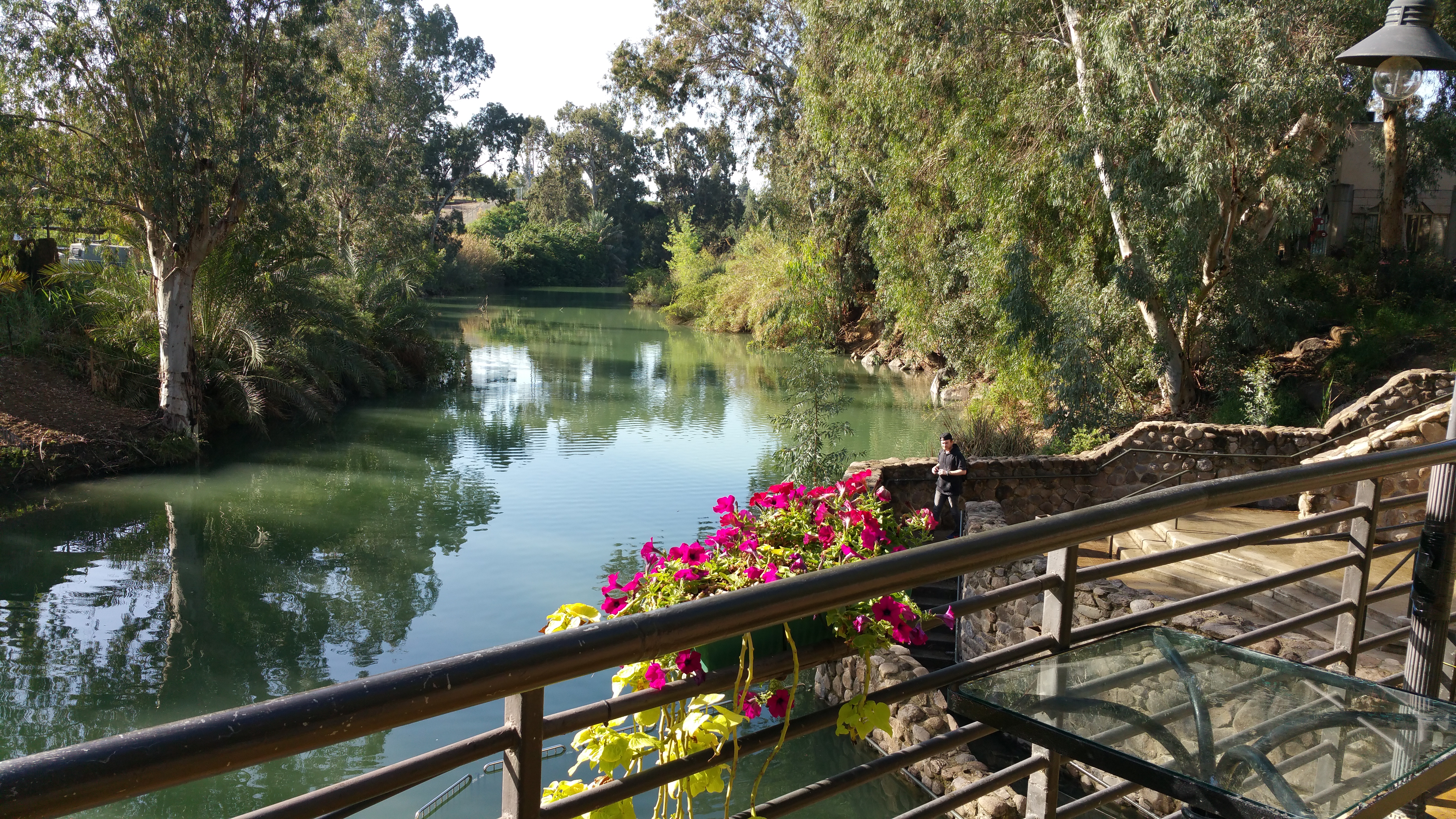 Yardenit, Baptismal Site on the Jordan Yardenit